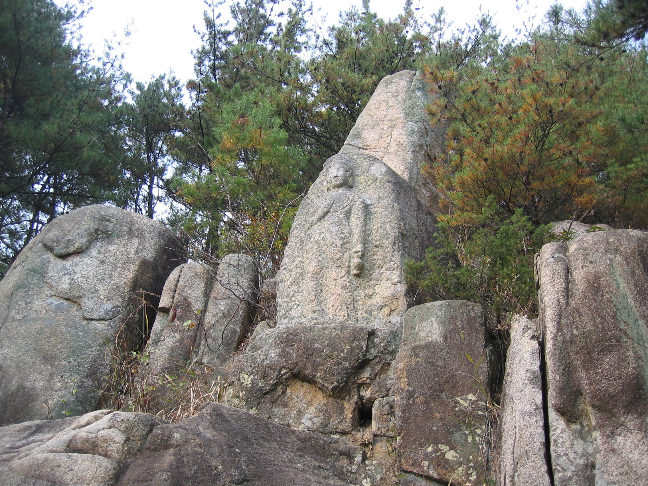 Mt. Namsan in Gyeongju, South Korea. Trees are Pinus densiflora.